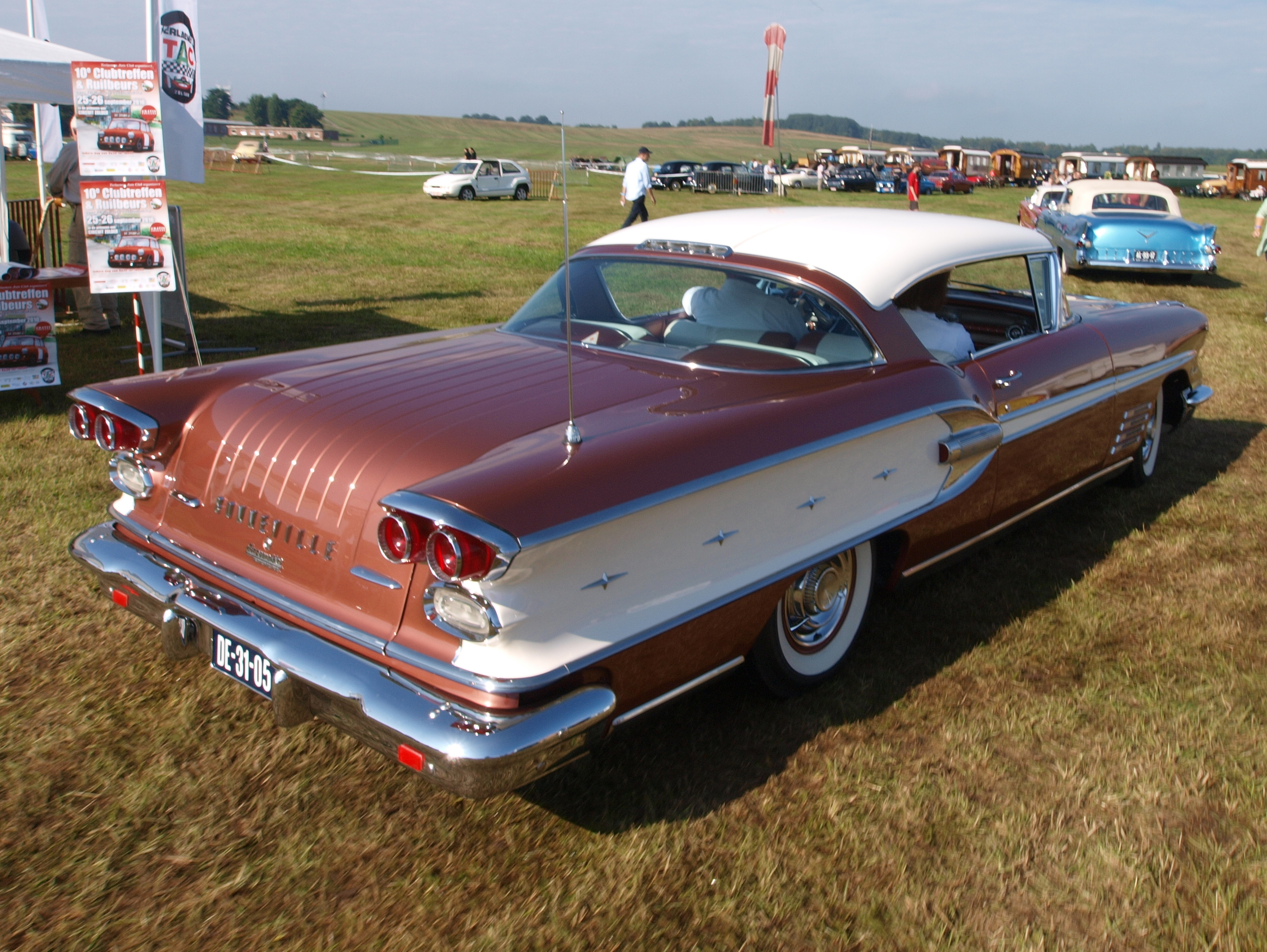 Photographed at the International Oldtimer Fly-In, Belgium.